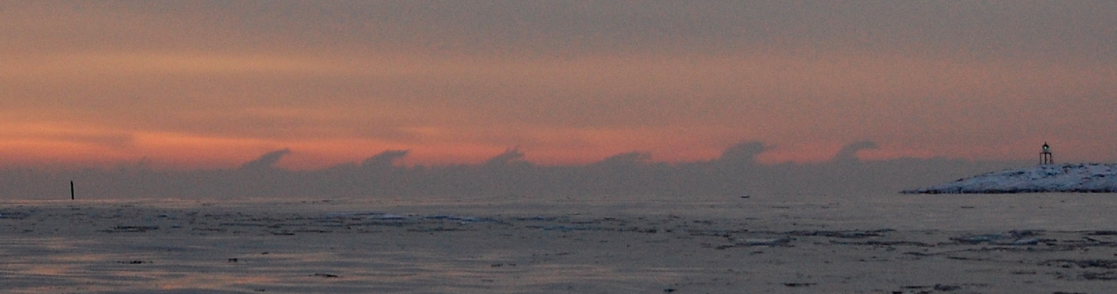 Clouds formed by a Kelvin-Helmholtz instability. Clouds formed over Skagerrak with a seatemperature of 2 deg C and airtemperature of -4 deg C.